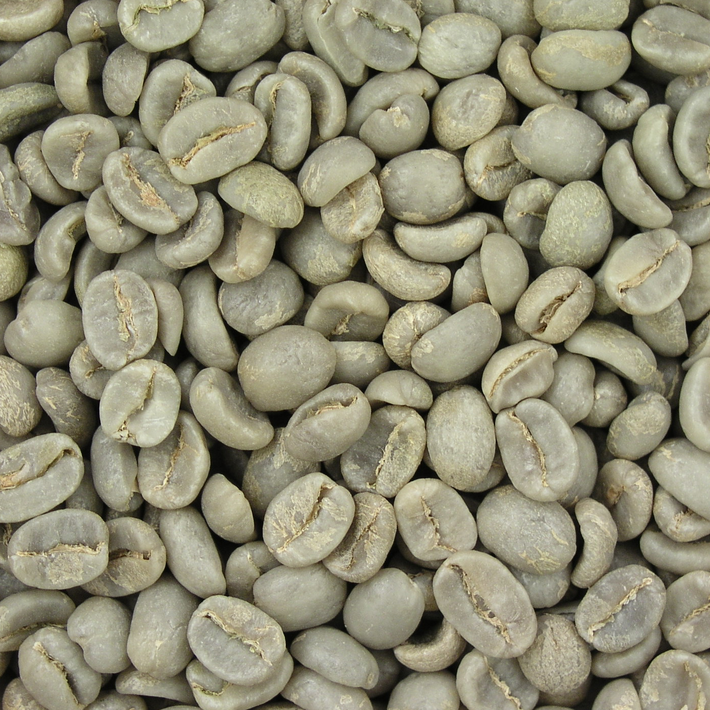 Typical Brazilian coffee at 75° F, unroasted coffee.